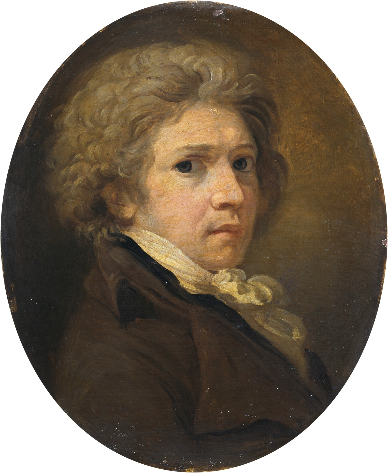 Appiani-Autoritratto 1790 - 1799 Pinacoteca di Brera, Milano